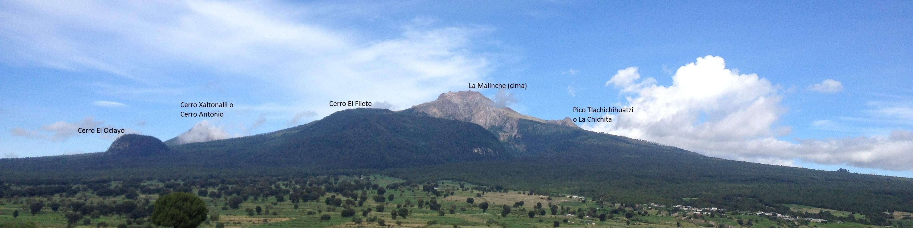 Panorama of the peaks of La Malinche volcano, seen from Cerro Xalapasco